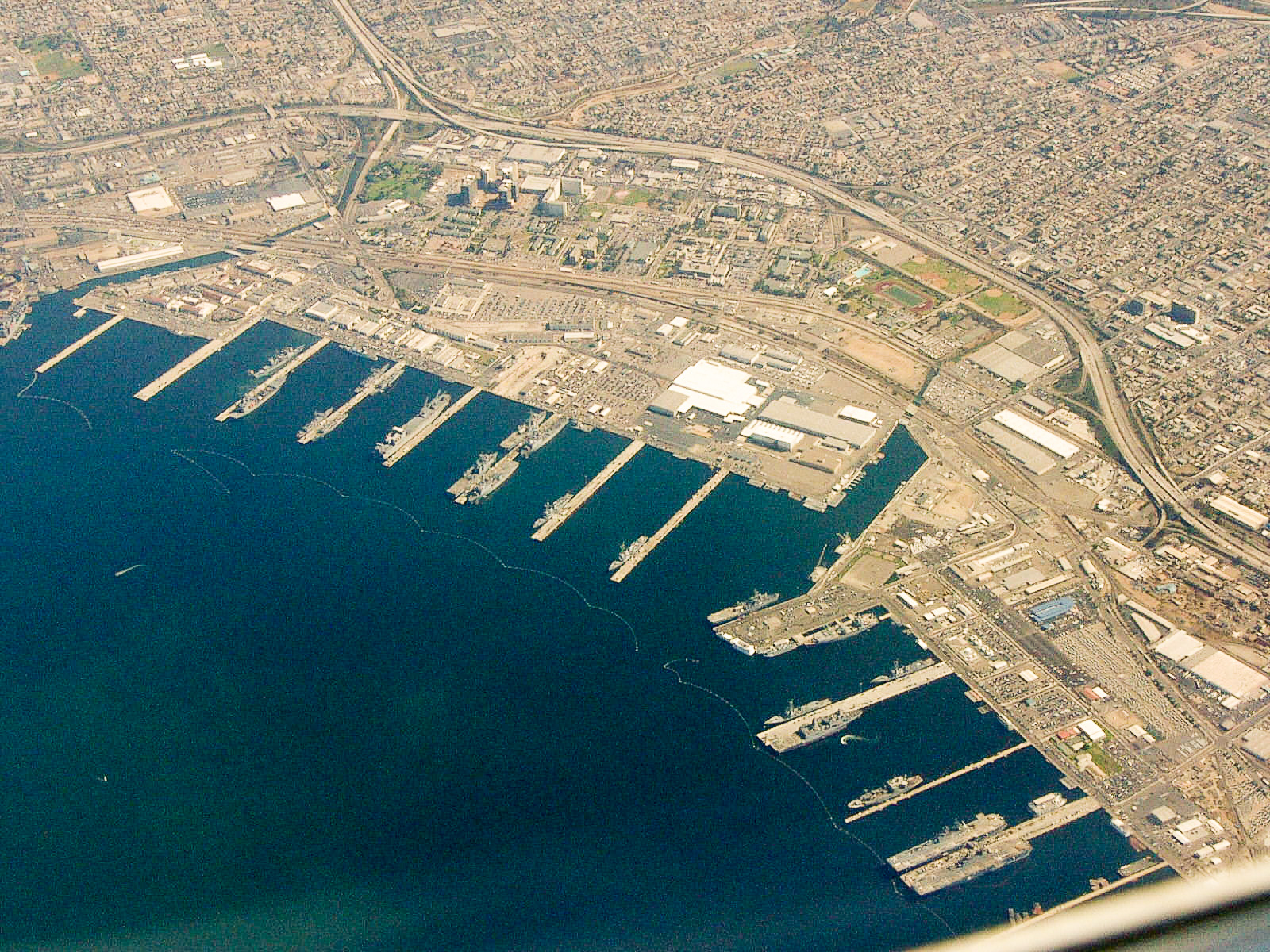 San Diego Naval Base, as seen from a commercial airliner